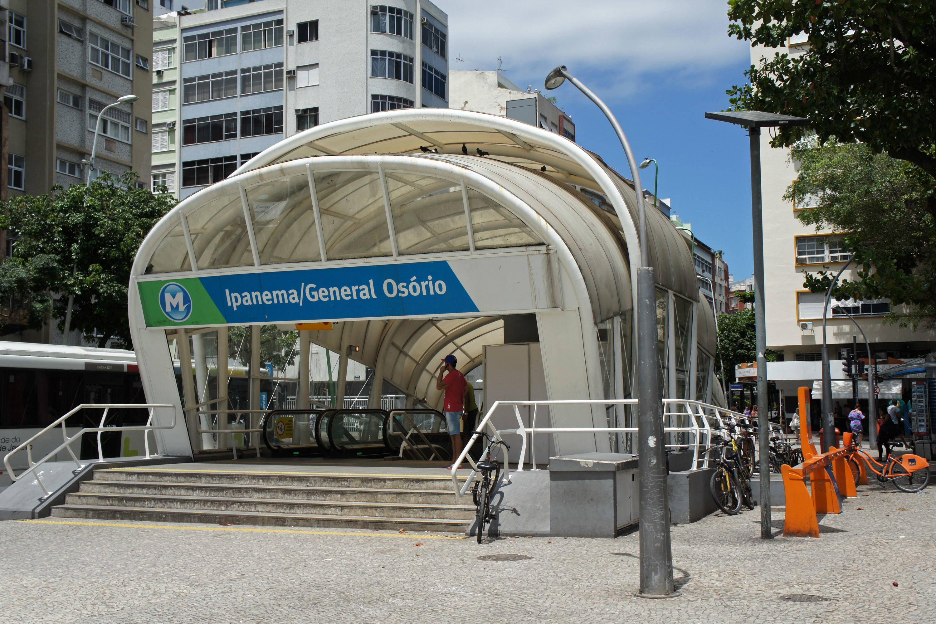 Entrance to the Ipanema/General Osório Station, Rio de Janeiro Metro, Brazil